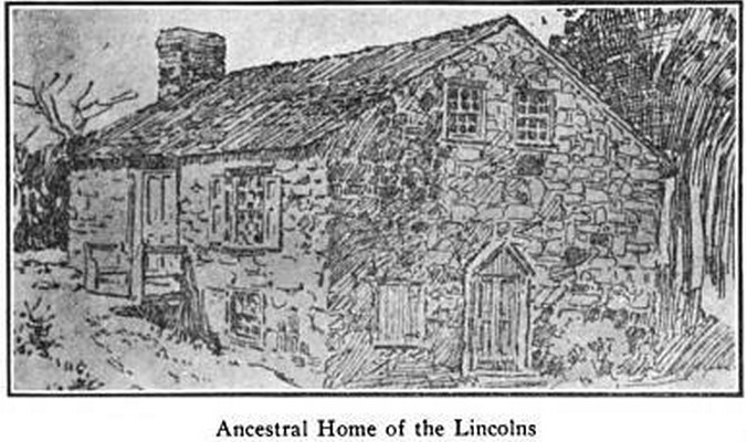 Sketch of the Mordecai Lincoln house in Berks County, Pennsylvania, from the above history book published in 1907. Caption Reads "Ancestral home of the Lincolns, built about 1725 by the great-great-grandfather of President Lincoln; it is situated about eight miles south of Reading. From a sketch in the possession of D.E. Brinton." [1] Note that the Brinton family is closely associated with Chester County, PA since the beginning of the colony. House is still extant and now dated to c. 1733, with an addition extending the house into the hill c. 1760, and restored in the 1980s. This sketch is likely showing the building before the 1760 addition. Differences from the current state are the length of the building, the lack of one window on the first floor above the basement (near corner) and the size of the hood over the basement door. On the NRHP since 1988, Now in Exeter Township, Berks County, Pennsylvania, not far from Daniel Boone's birthplace.